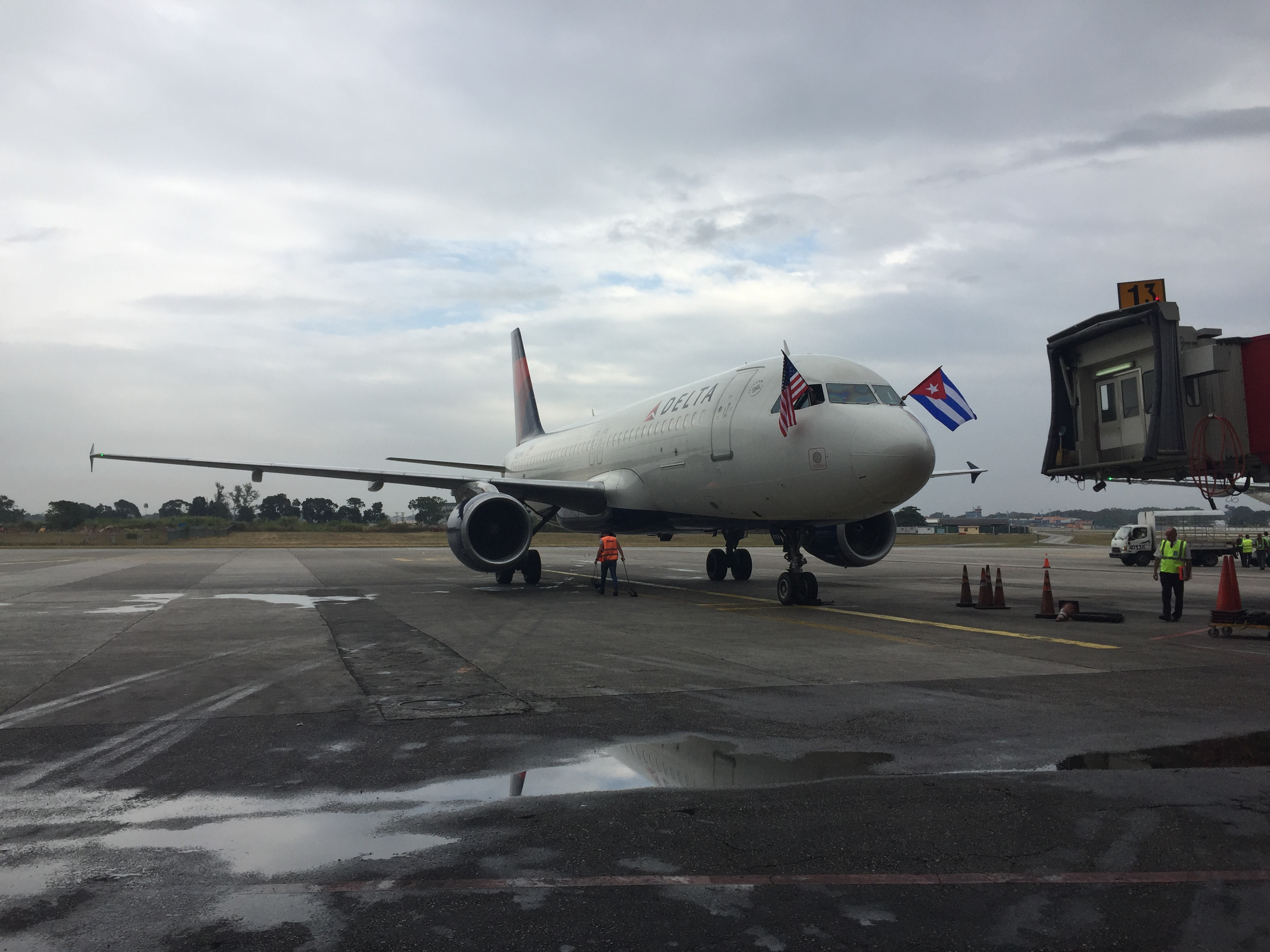 Delta returns to Cuba after 55-year hiatus